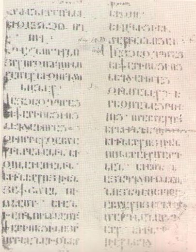 Armenian manuscript fragment